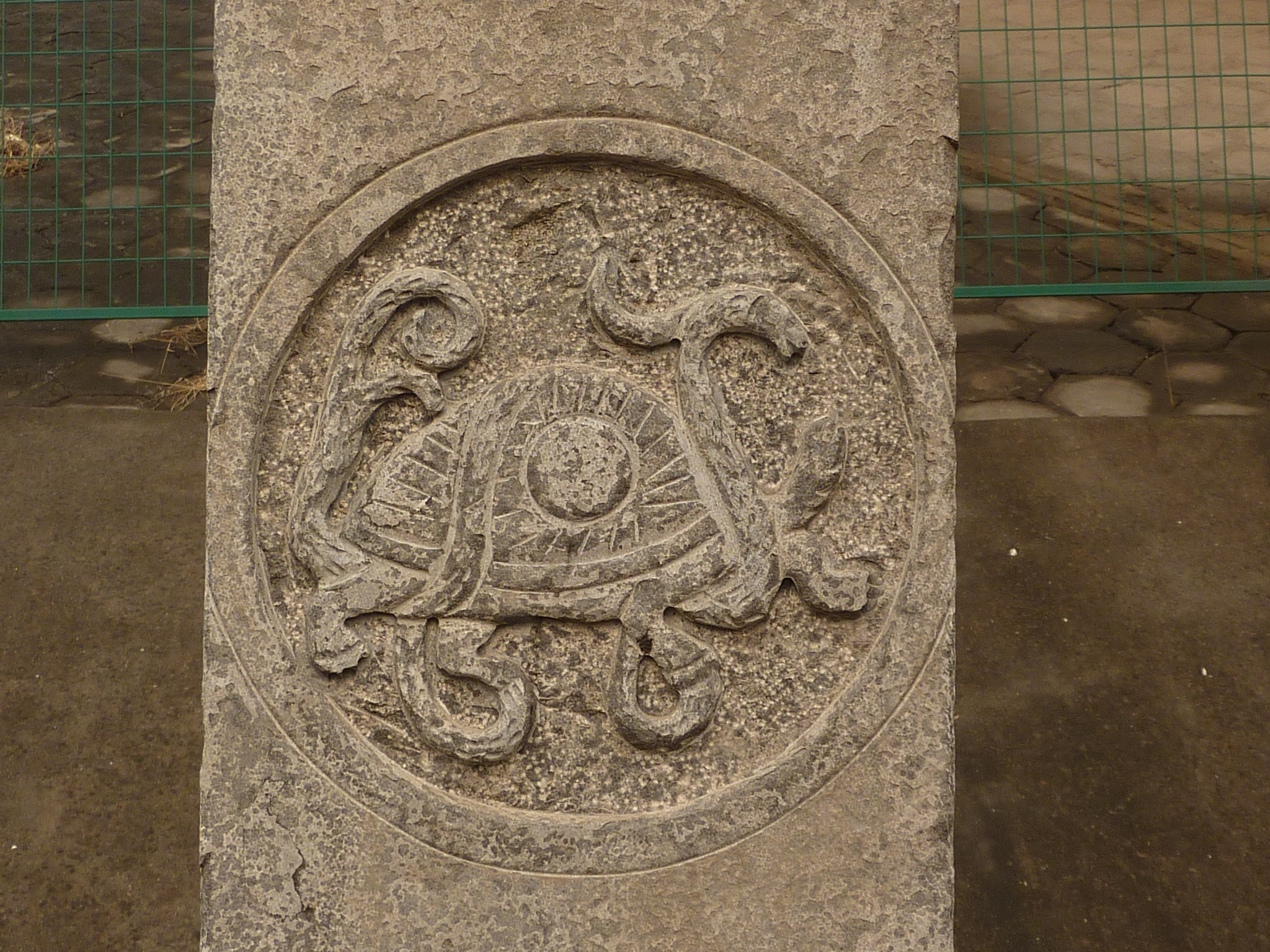 A marker on the branch road off Hwy S122, going to the Yangshan Quarry (and the nearby upscale housing developments), a few hundred meters from the quarry itself.